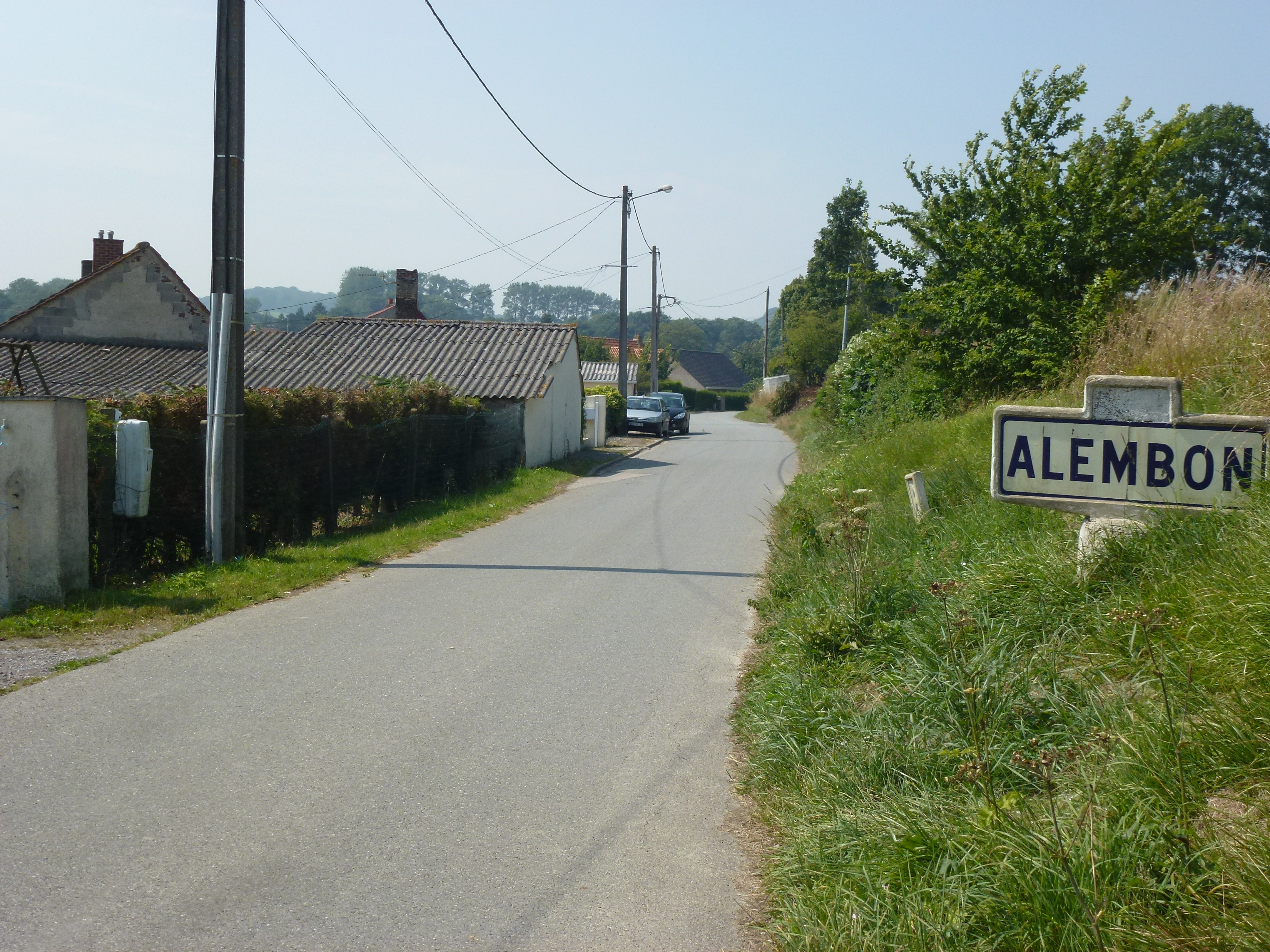 Alembon (Pas-de-Calais) city limit sign